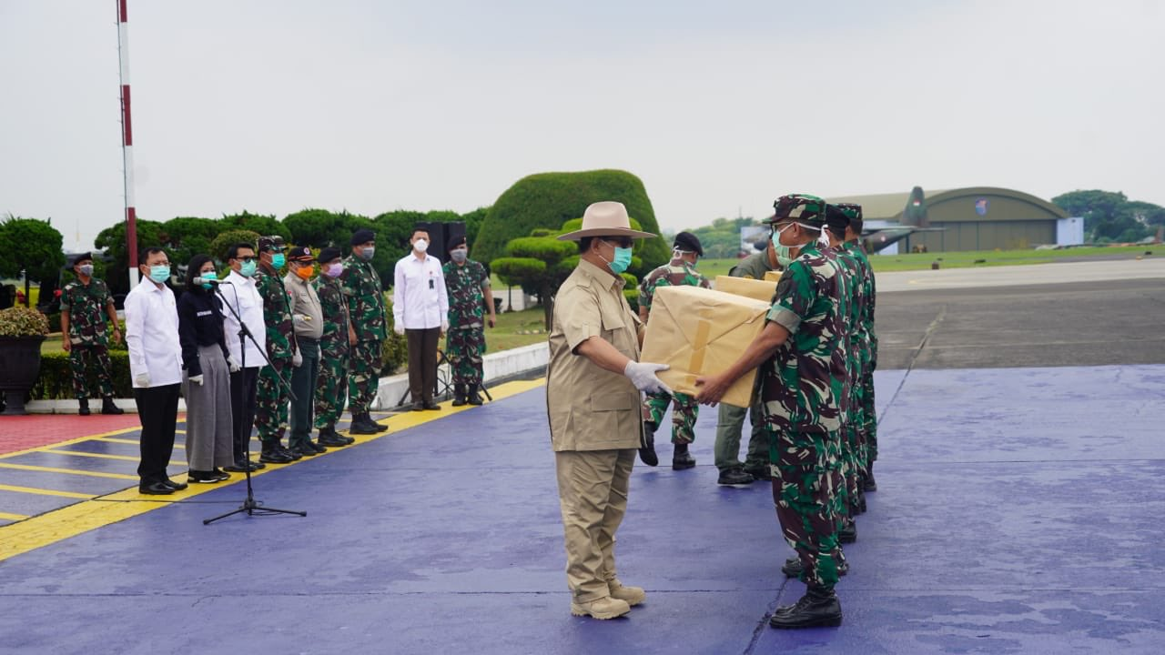 Minister of Defence, Prabowo Subianto, was handed a medical supply from China. Prabowo had ordered the Indonesian Armed Forces to pick up tonnes of medical equipment from Shanghai, China in response to the ongoing coronavirus outbreak in Indonesia